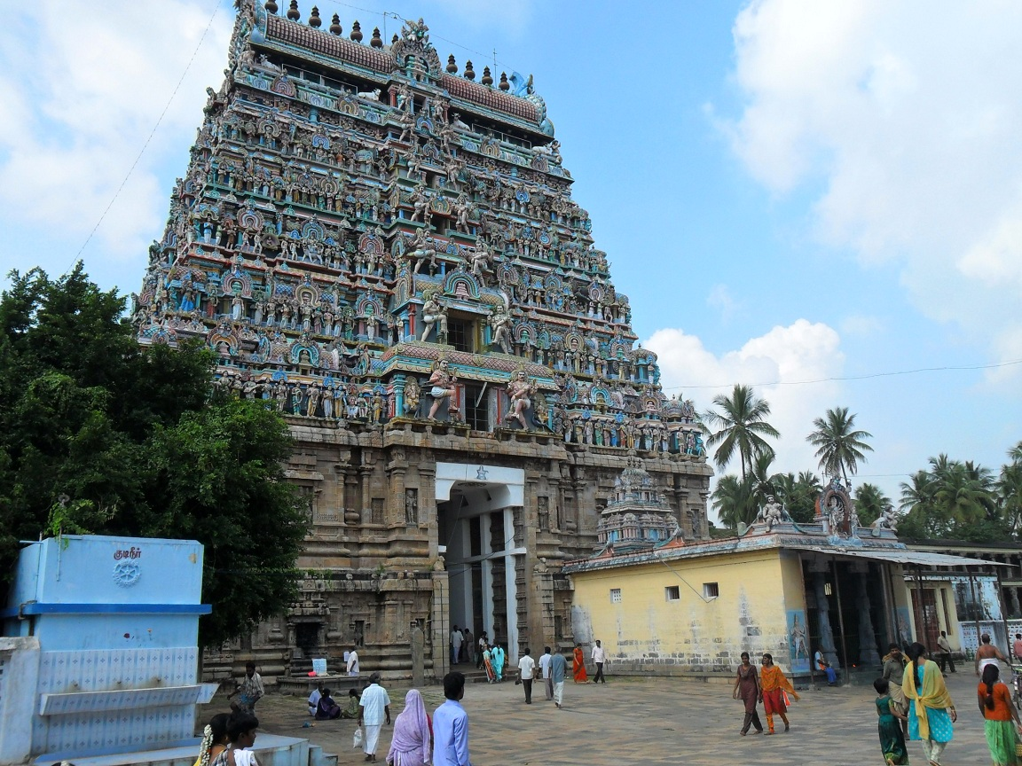 Gopuram in Tamil Nadu, South India